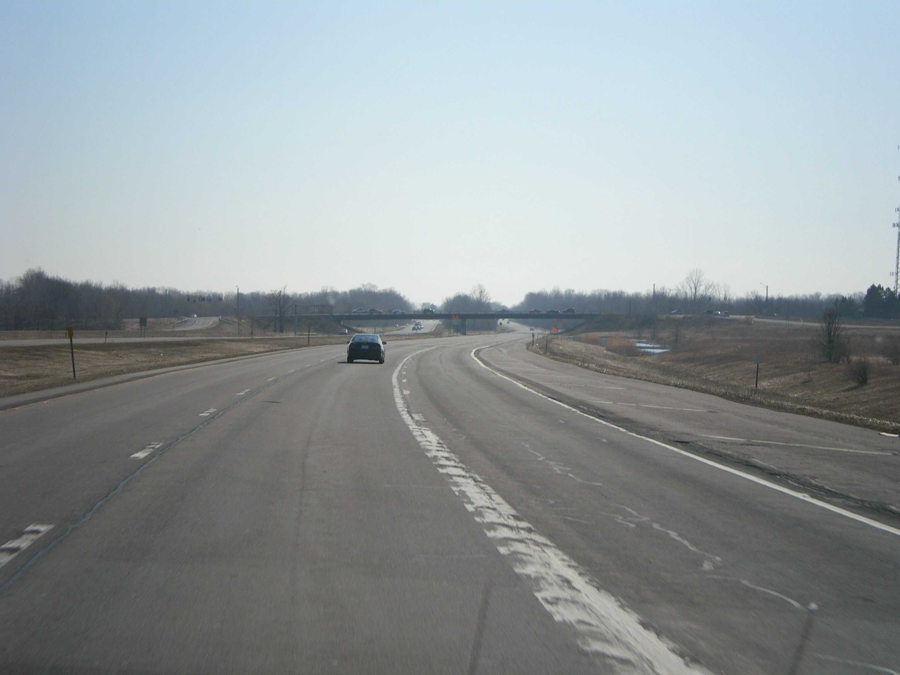 Wide view of New York State Route 531's interchange with New York State Route 386 as seen from NY 531 eastbound. This was the Spencerport Expressway's western terminus until 1984.